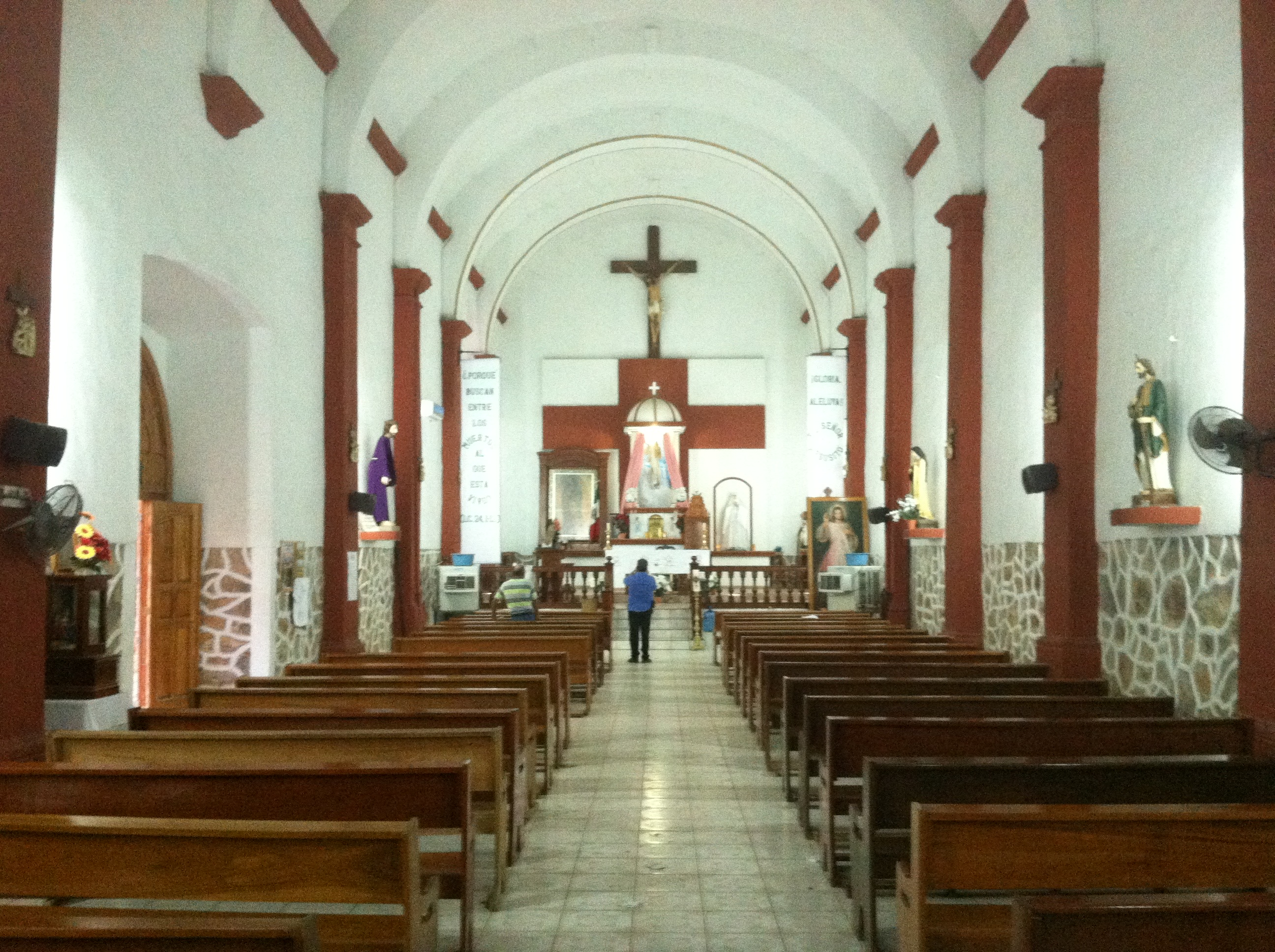 Interior of San Ignacio de Layola Catholic Church 2019